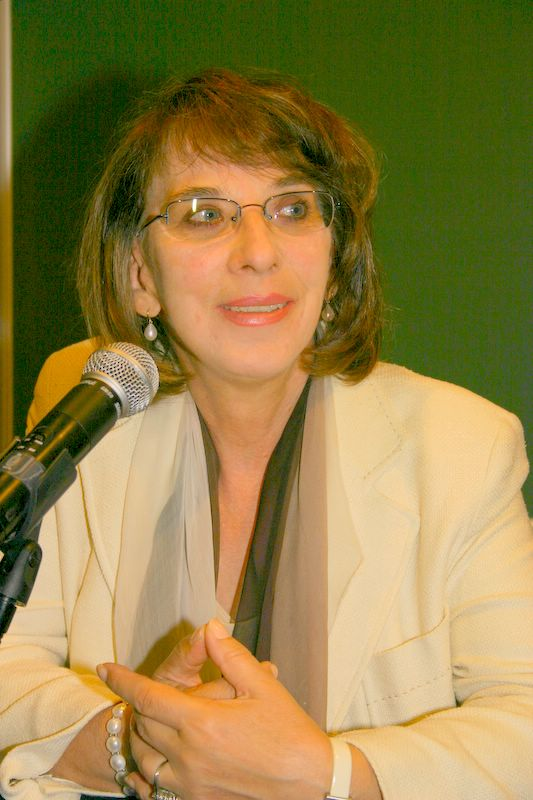 Svetlana Makarovič at Faculty of Arts in Ljubljana in May 2006